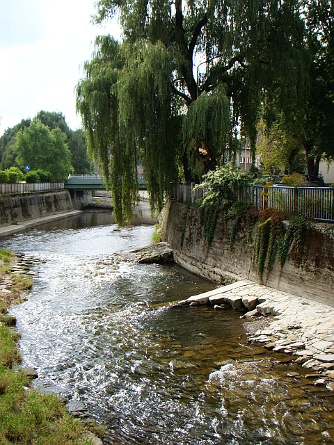 Bielsko